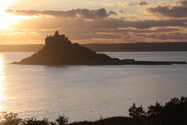 St Michael's Mount at sunset, near to Marazion, Cornwall, Great Britain. Viewed from the entrance to Mount Haven Hotel, at Marazion.